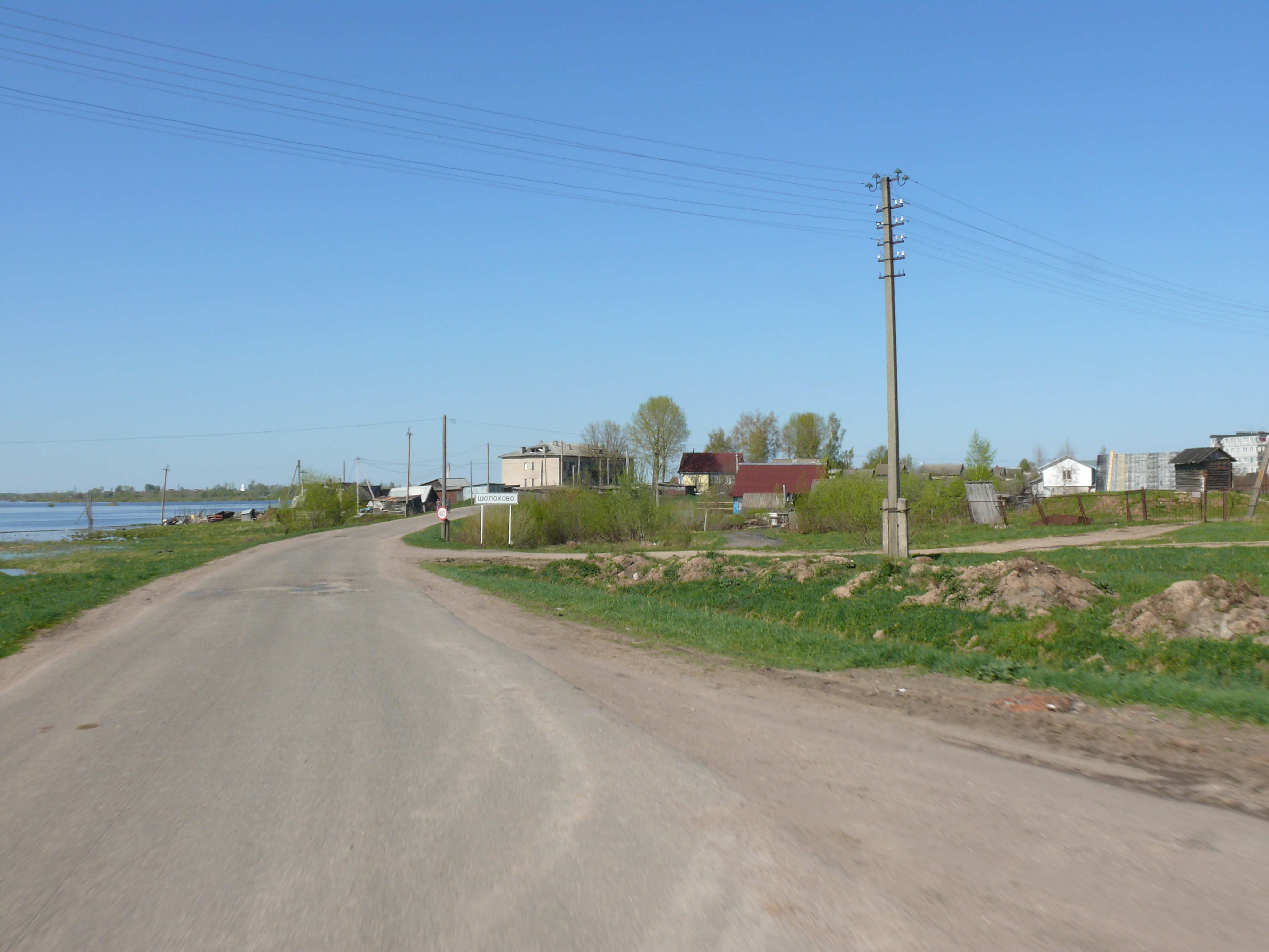 Southern enter in Sholokhovo village. Novgorodsky district, Novgorod oblast, Russia